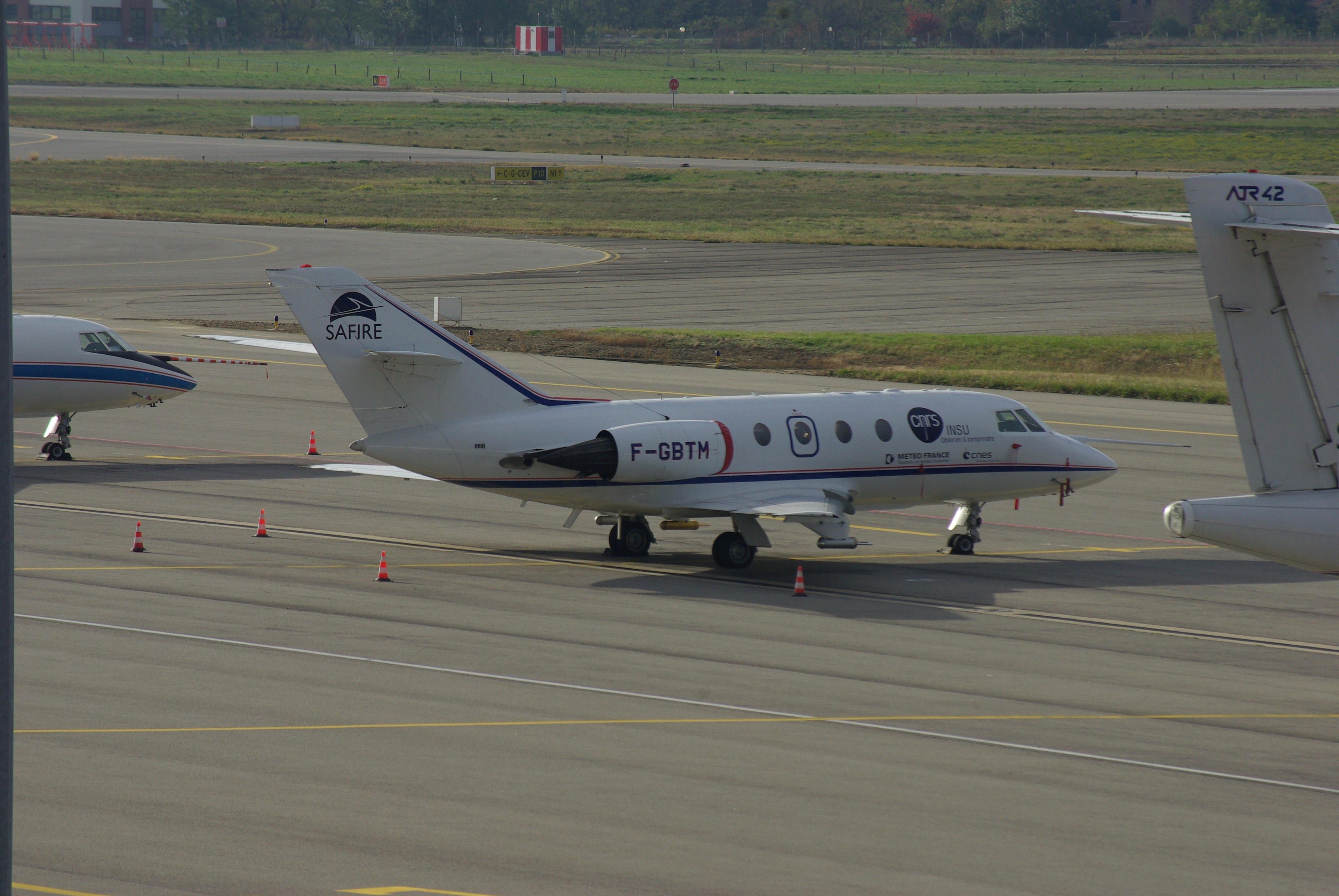 The Falcon 20 of the french research institute SAFIRE at the International Conference on Airborne Research for the Environment (ICARE 2010) in Toulouse.